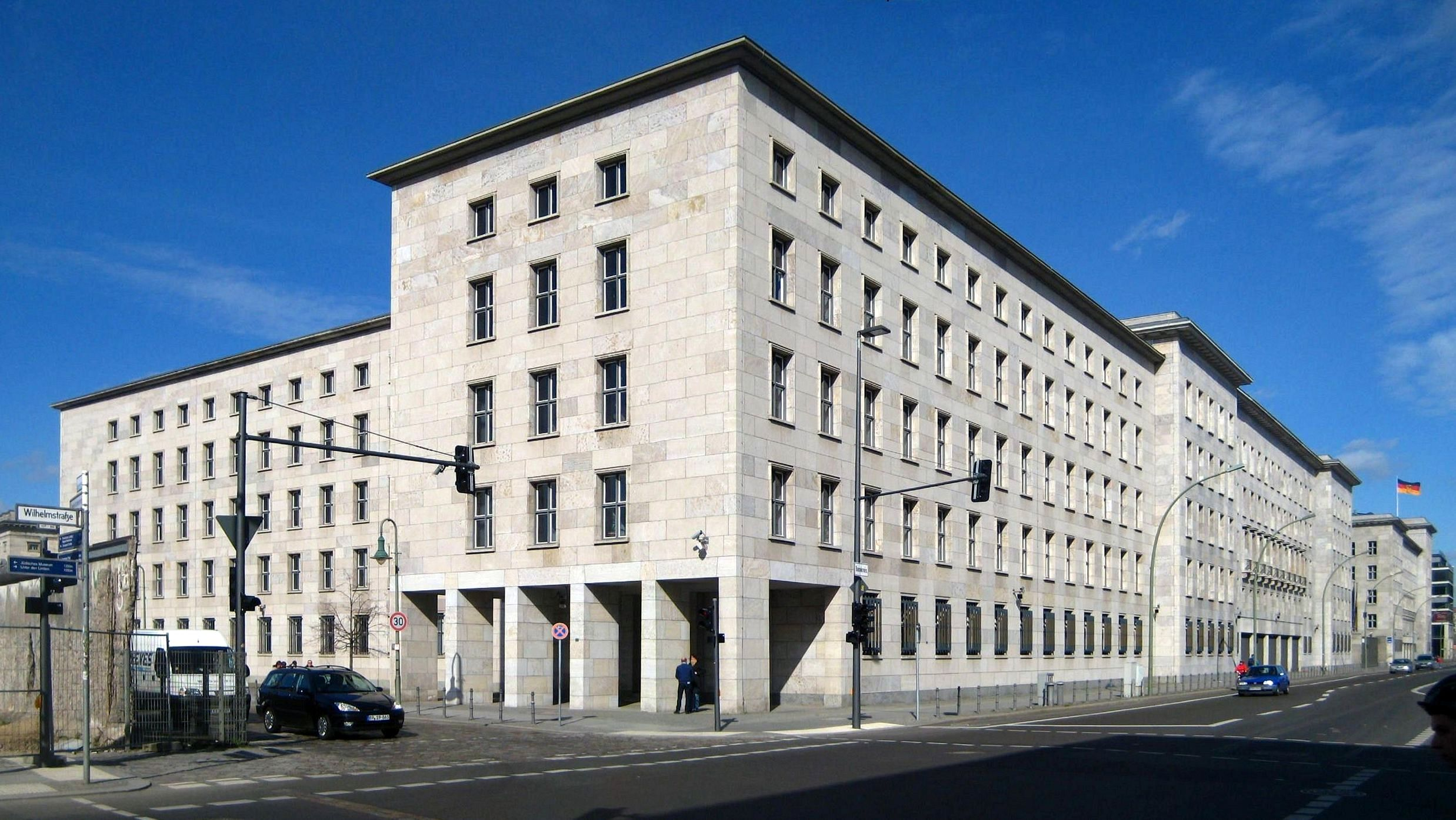 The Detlev-Rohwedder-Haus at the corner of Wilhelmstraße (right) and Niederkirchnerstraße in Berlin-Mitte, now seat of the German Federal Ministery of Finance. The monumental complex was built from 1935 to 1936 as Reich Air Ministry to a design by Ernst Sagebiel. It has been designaed as a historic landmark. (Panorama picture stitched from two photos.)